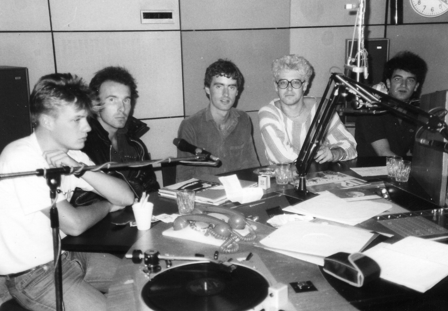 Radio host Dave Fanning in the studio with Irish rock band U2 in 1982. From left to right: Larry Mullen Jr., The Edge, Dave Fanning, Adam Clayton, and Bono